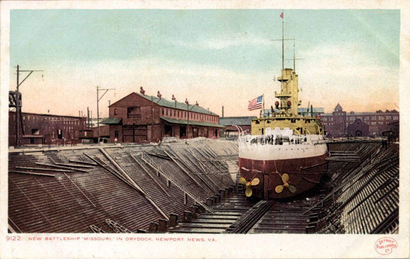 New Battleship Missouri